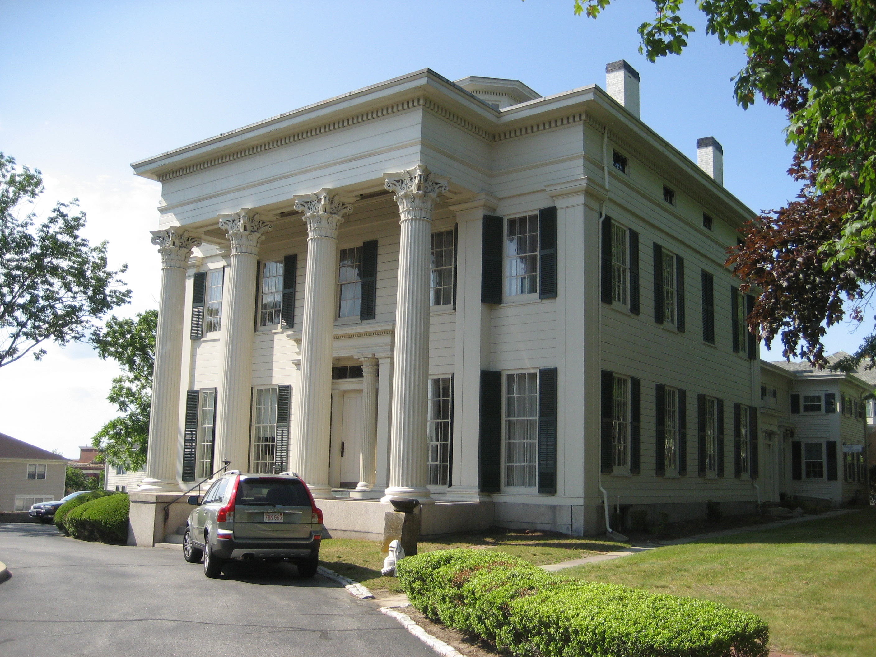 Fall River, Massachusetts: Carr-Osborne House, built 1842